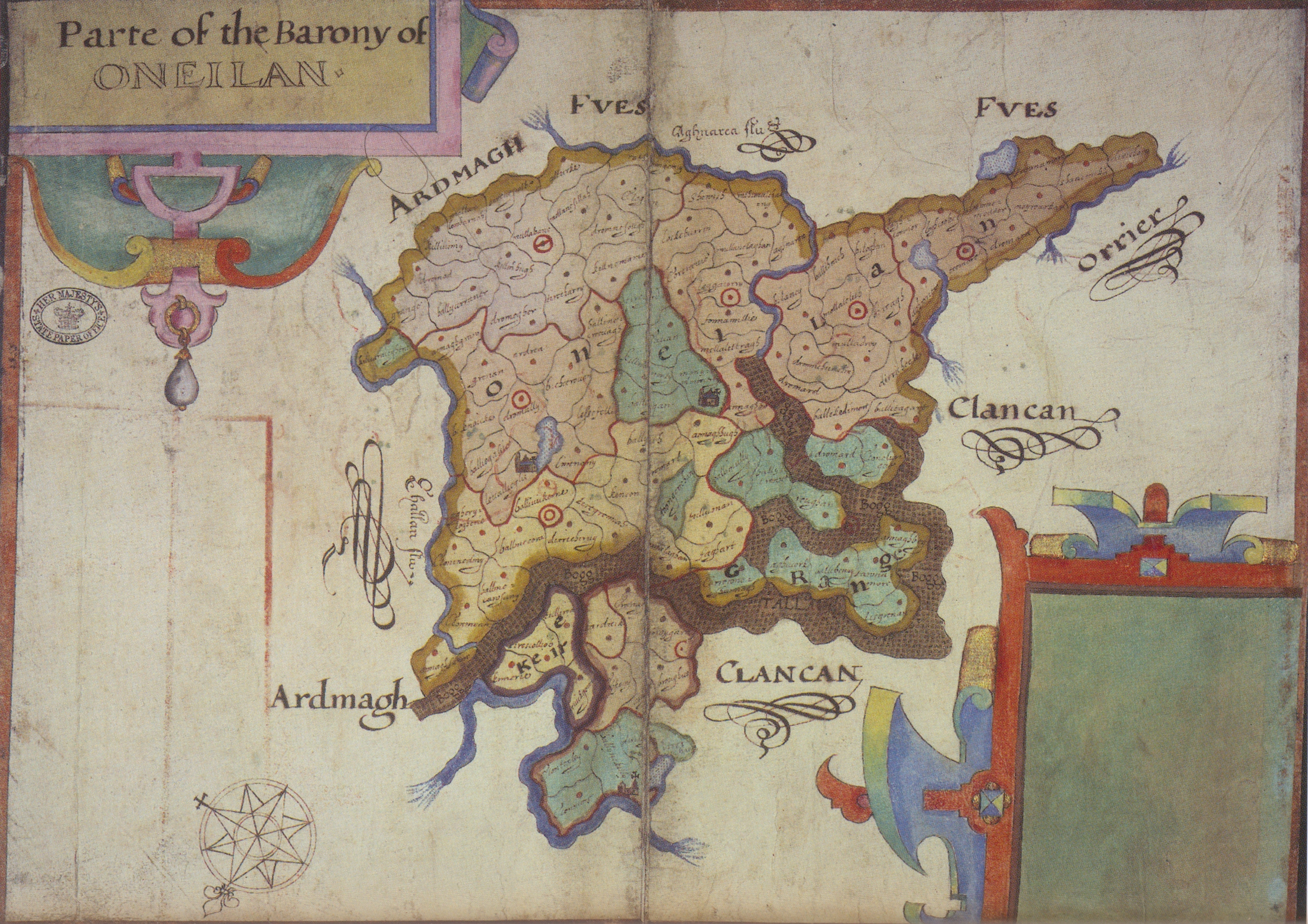 Map of the Barony of Oneilan in County Armagh as drawn by Josias Bodley during the survey of Ulster in 1609. The map is held by the National Archives, Kew; reference MPF 1/61.